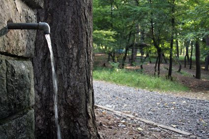 Княжевска борова гора - чешма